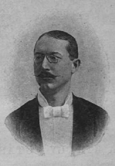 Gyula Rózsavölgyi